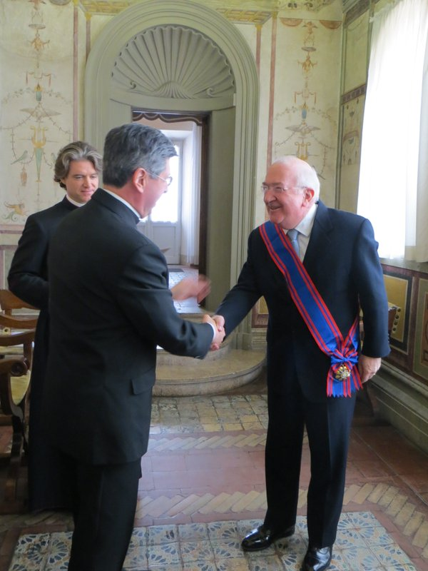 US ambassador to the Holy See receives the Knight Grand Cross of the Order of Pius IX in Rome, March 2016